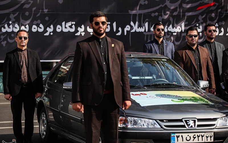 Maneuver of Iranian Police Protection Units